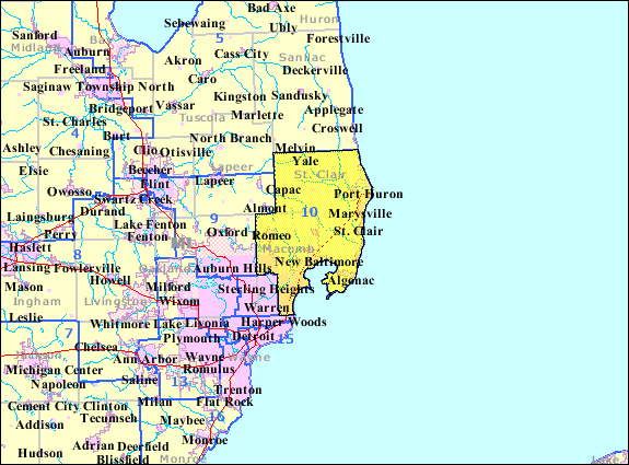 Map of Michigan's 10th congressional district for the en:106th United States Congress, illustrating boundaries prior to redistricting in 2002.